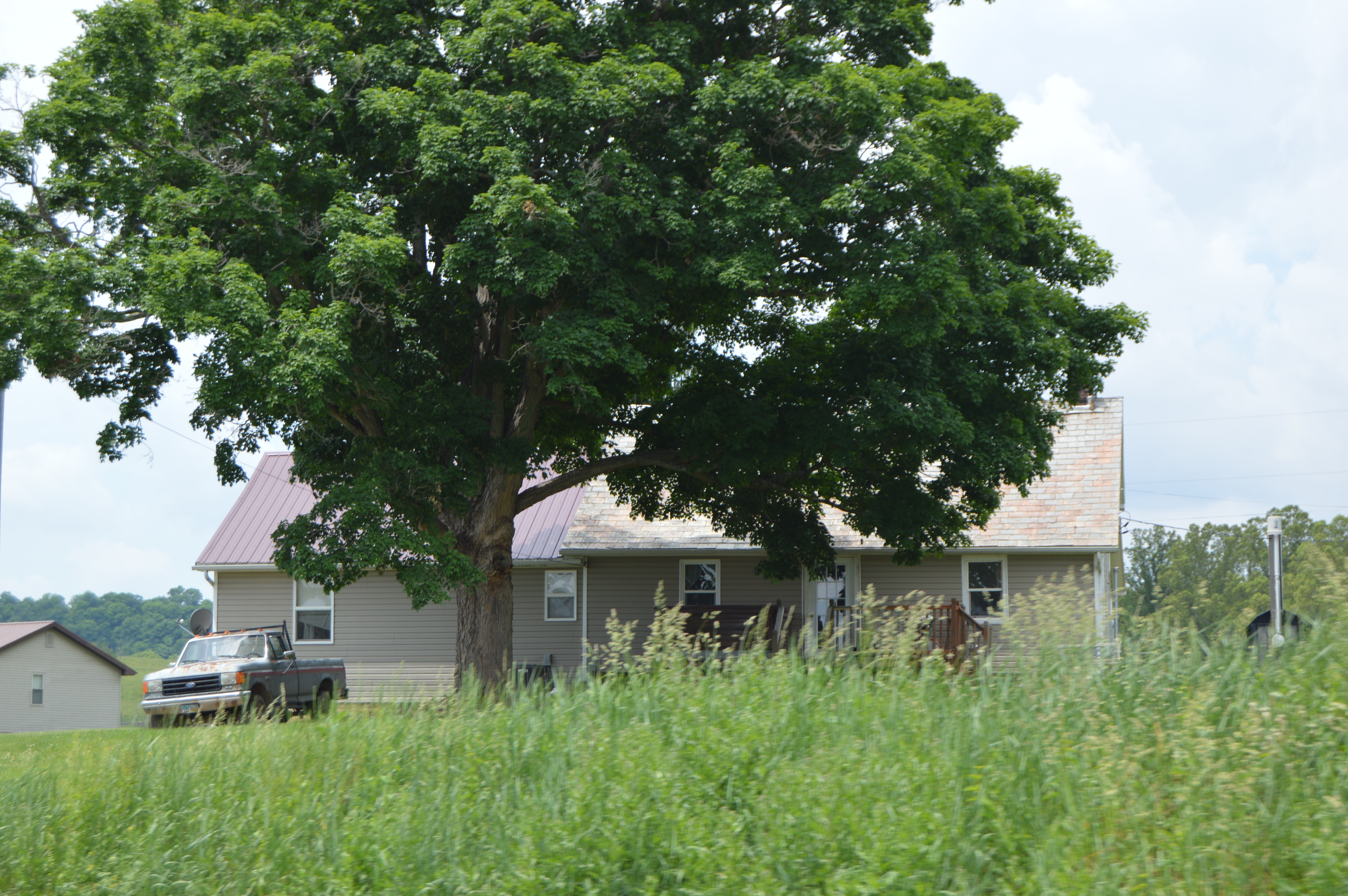 Northern side of the Mason House, located along Coal Run Drive in Coal Run, Ohio, United States. The core of the house (on the right side in this picture) is a saltbox built in 1802, although it has been heavily modified since the 1970s. It is listed on the National Register of Historic Places, and it is also a part of the Register-listed Coal Run Historic District.